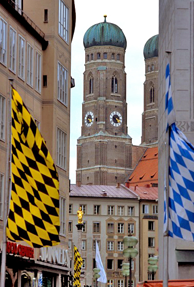 The Munich flag, the Bavarian flag and the Frauenkirche. Photo by Bob Tubbs.